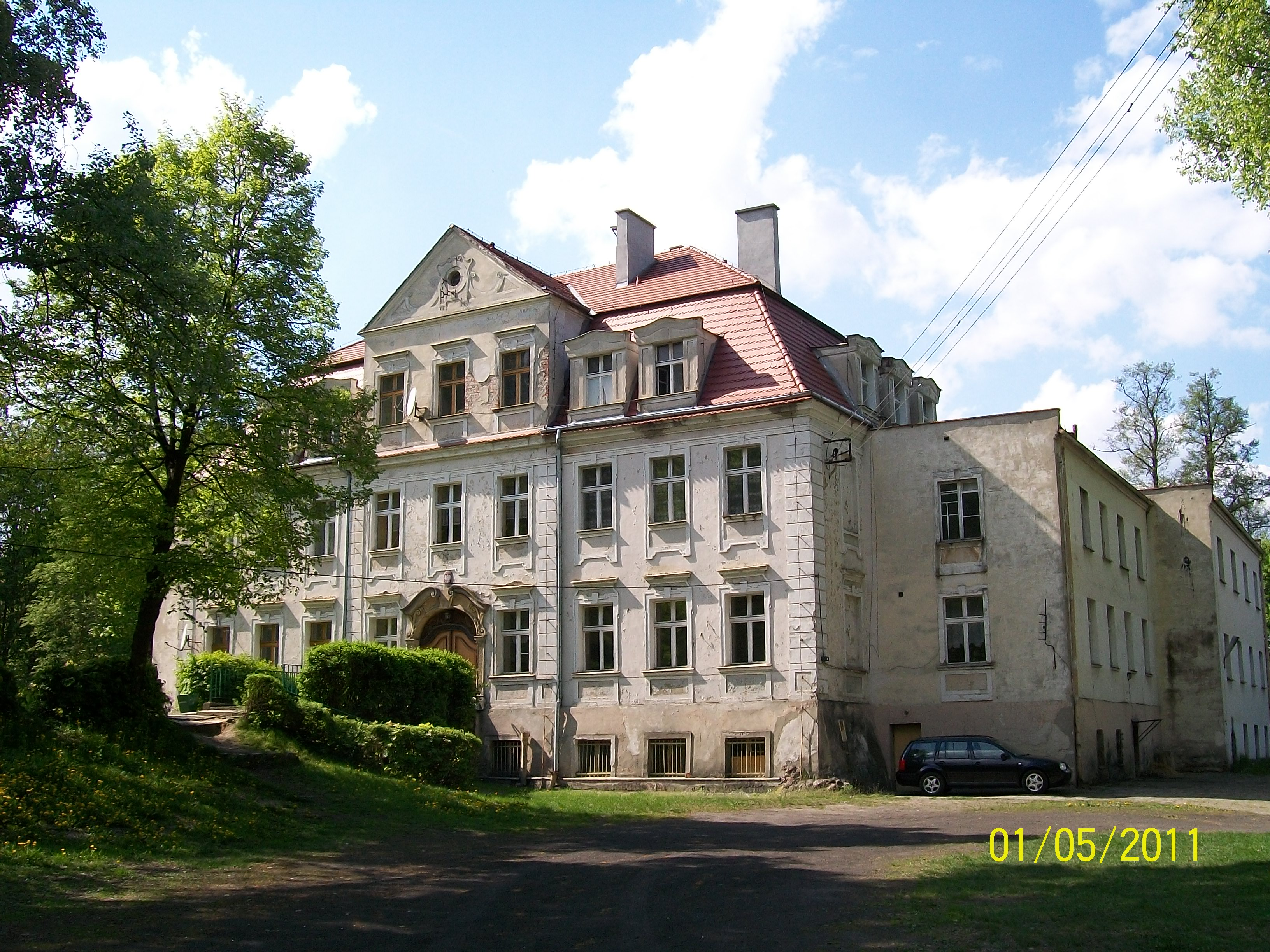 Baroque palace in Twardogóra, Poland (now school complex)